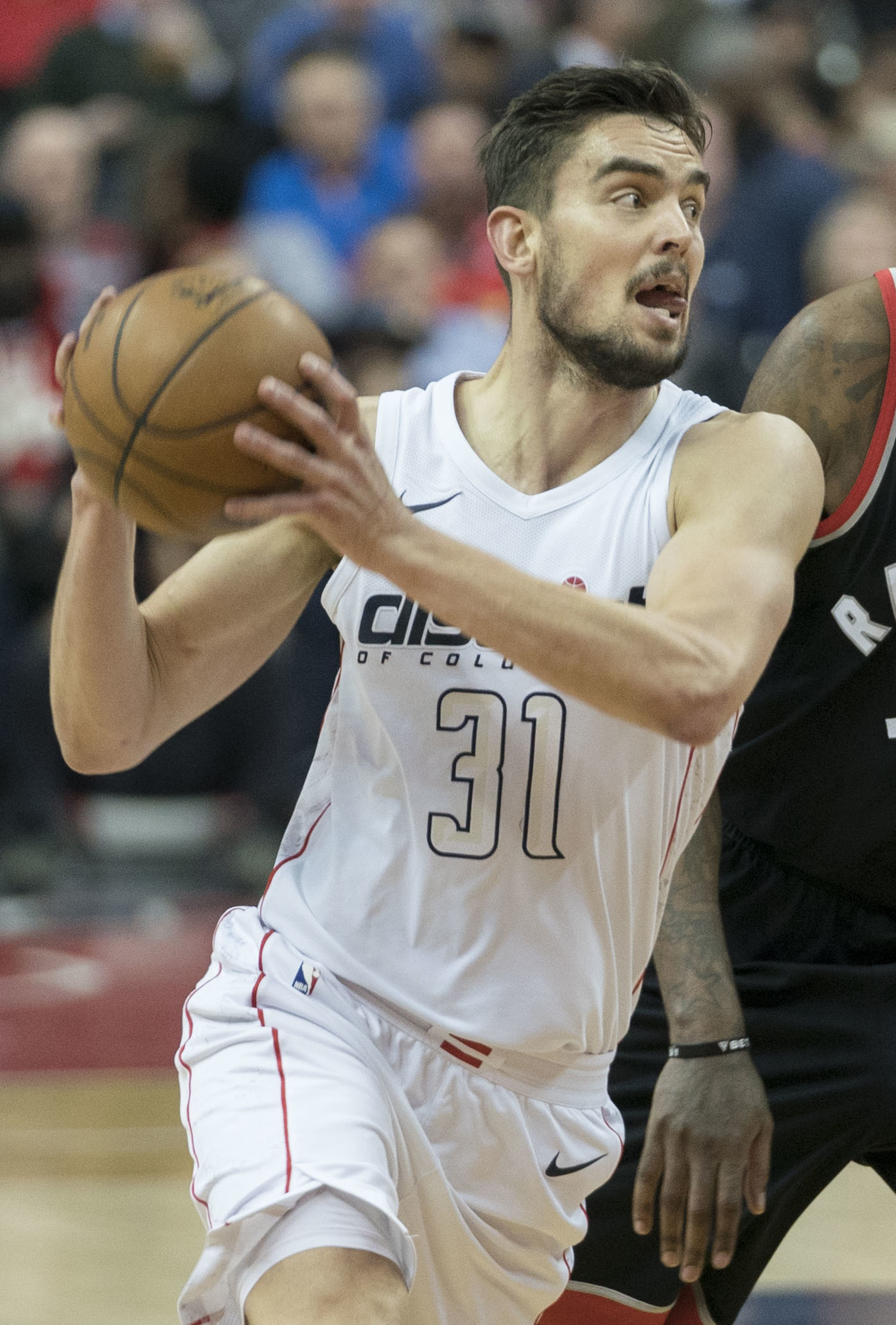 Raptors at Wizards 3/2/18